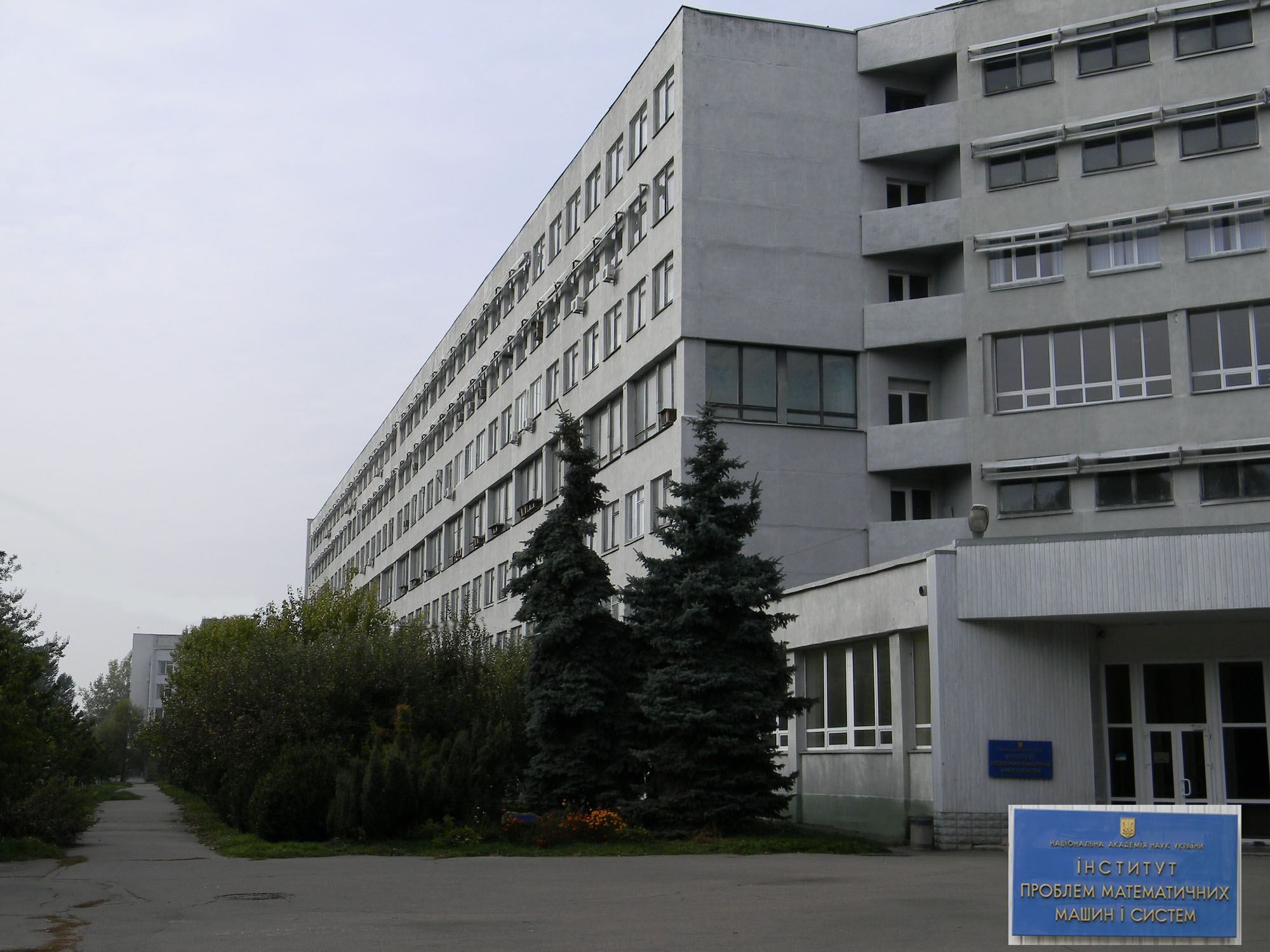 It is a photo of scientific state organization. It is my own photo.